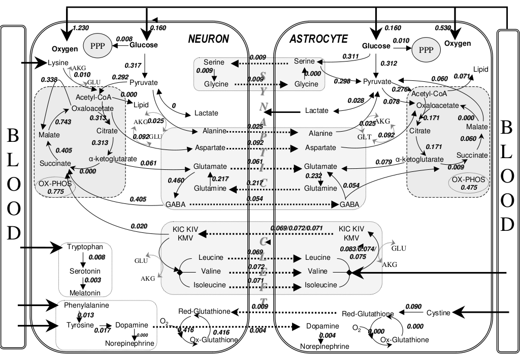 Major metabolic fluxes (μmol/g tissue/min) in neuron-astrocyte coupling for resting conditions. The fluxes were calculated with the objective of maximizing the glutamate/glutamine/GABA cycle fluxes between the two cell types with subsequent minimization of Euclidean norm of fluxes, using the uptake rates given in Table 1 as constraints. Thick arrows show uptake and release reactions. Dashed arrows indicate shuttling of metabolites between the two cell types. Only key pathway fluxes are represented here for simplicity. The flux distributions for all the reactions listed in Additional File 1 are given in Additional File 4:Supplementary Table 3. (Description is figure caption from original article)